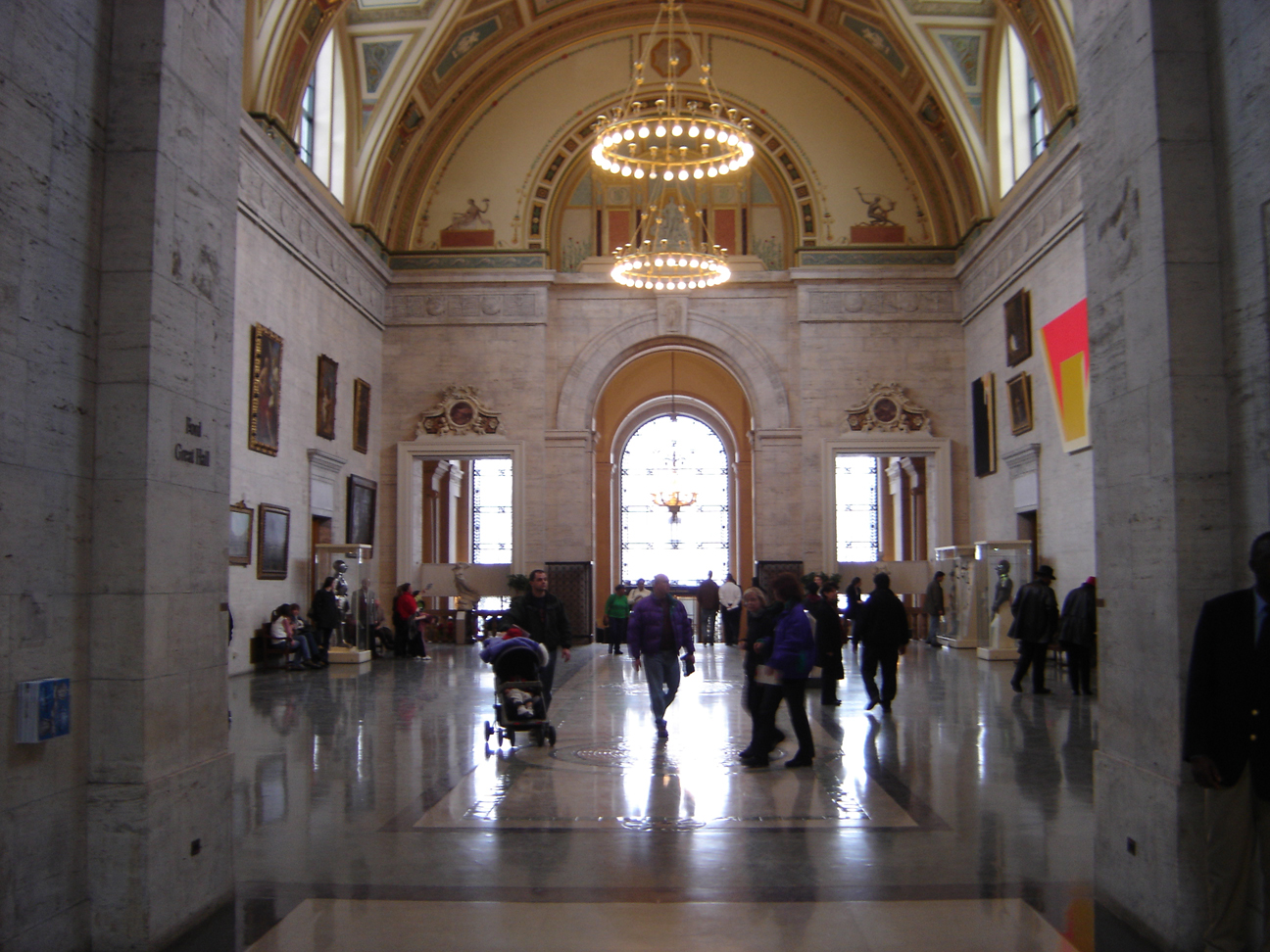 Interior main hall — Detroit Institute of Arts.